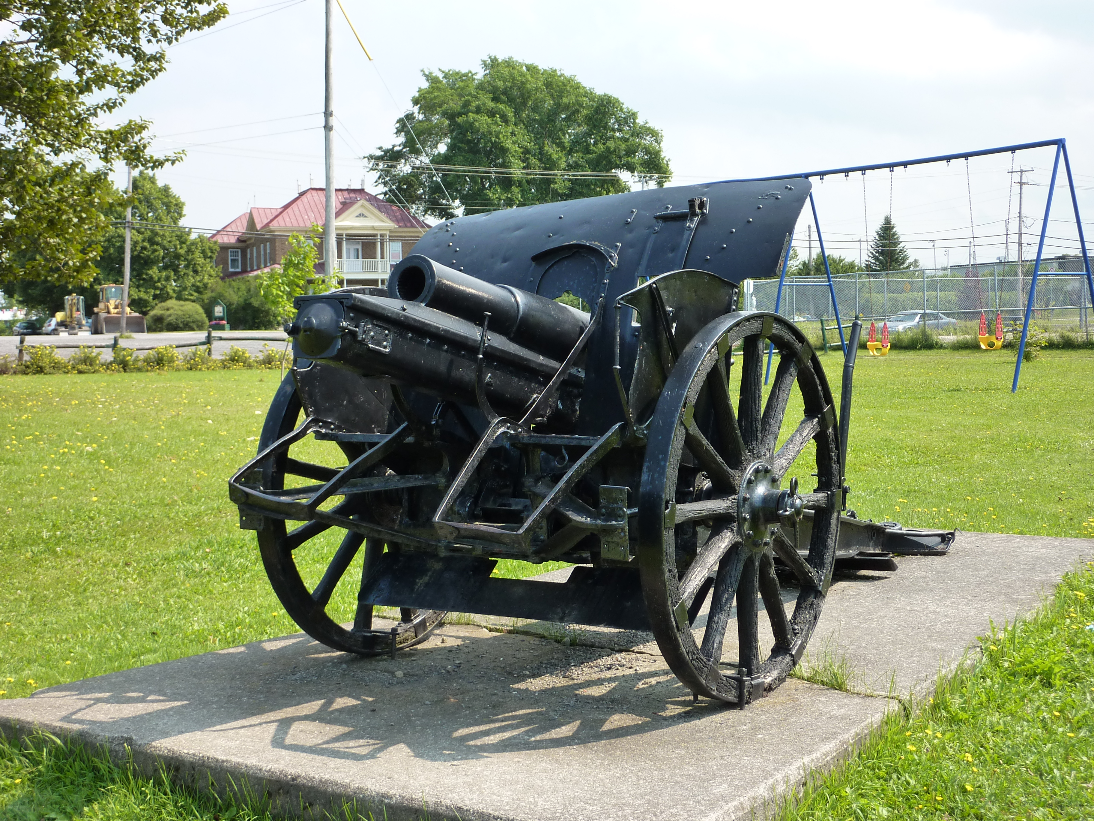 10.5-cm Feldhaubitze 98/09 (10.5-cm FH 98/09), (Serial No. 2908). This gun was captured by the 27th Battalion, Canadian Expeditionary Force on Oct 9 1917 near the edge of Farbus Wood at Vimy. The gun was taken over by the 4th Howitzer Battery and used in action against the Germans. It ha been recently restaured and is now exposed in the "Parc du Tournant de la Rivière" in Sayabec, Qc, Canada.